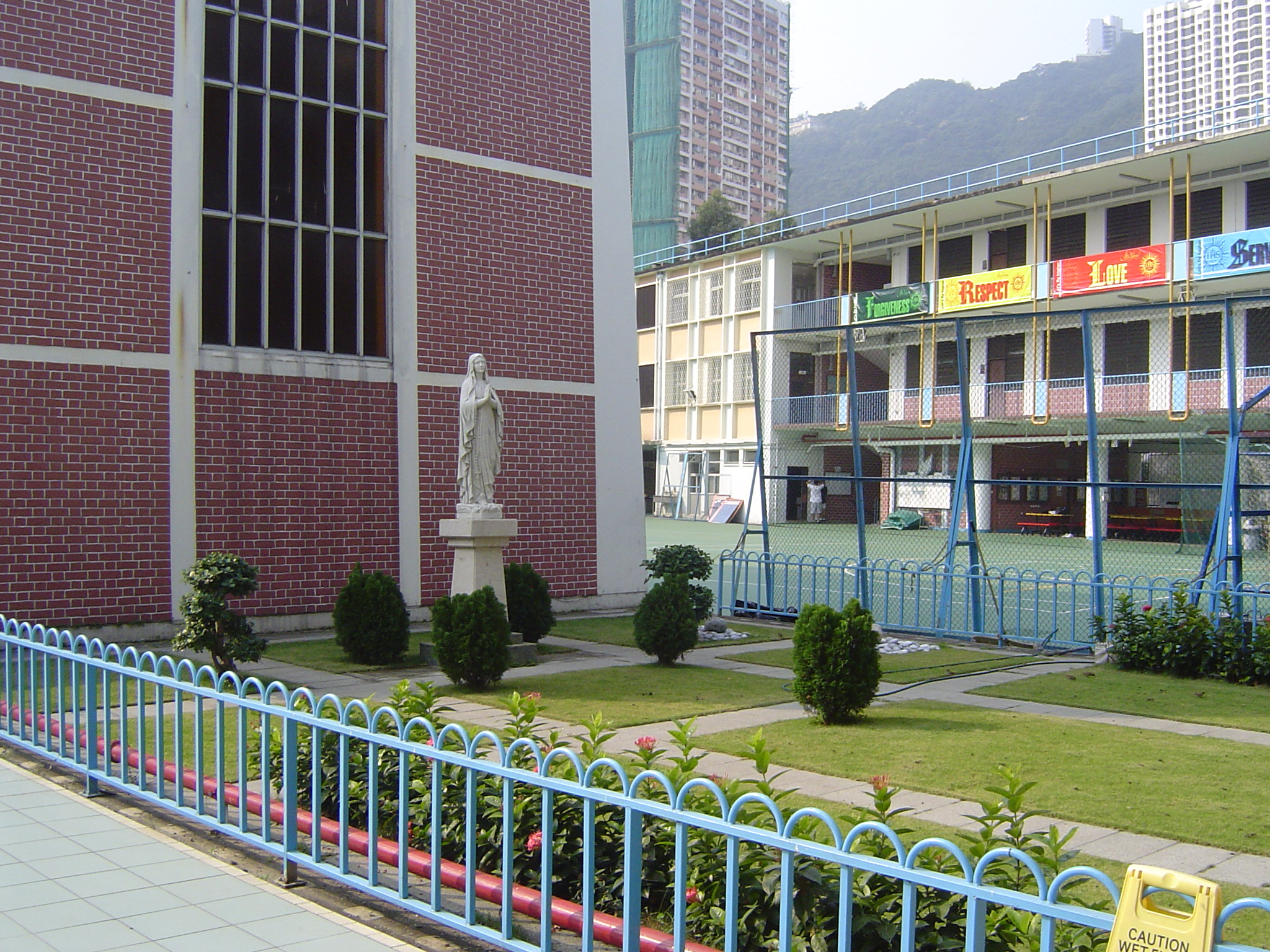 Chapel (left) and Laboratory Block (right) of Wah Yan College, Hong Kong